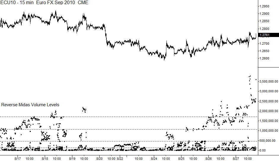 reverse m